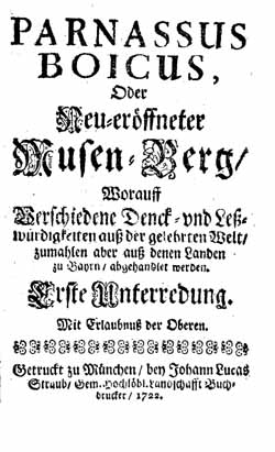 The bavarian Enlightenment journal Parnassus Boicus, first edition from 1722, published in Munich